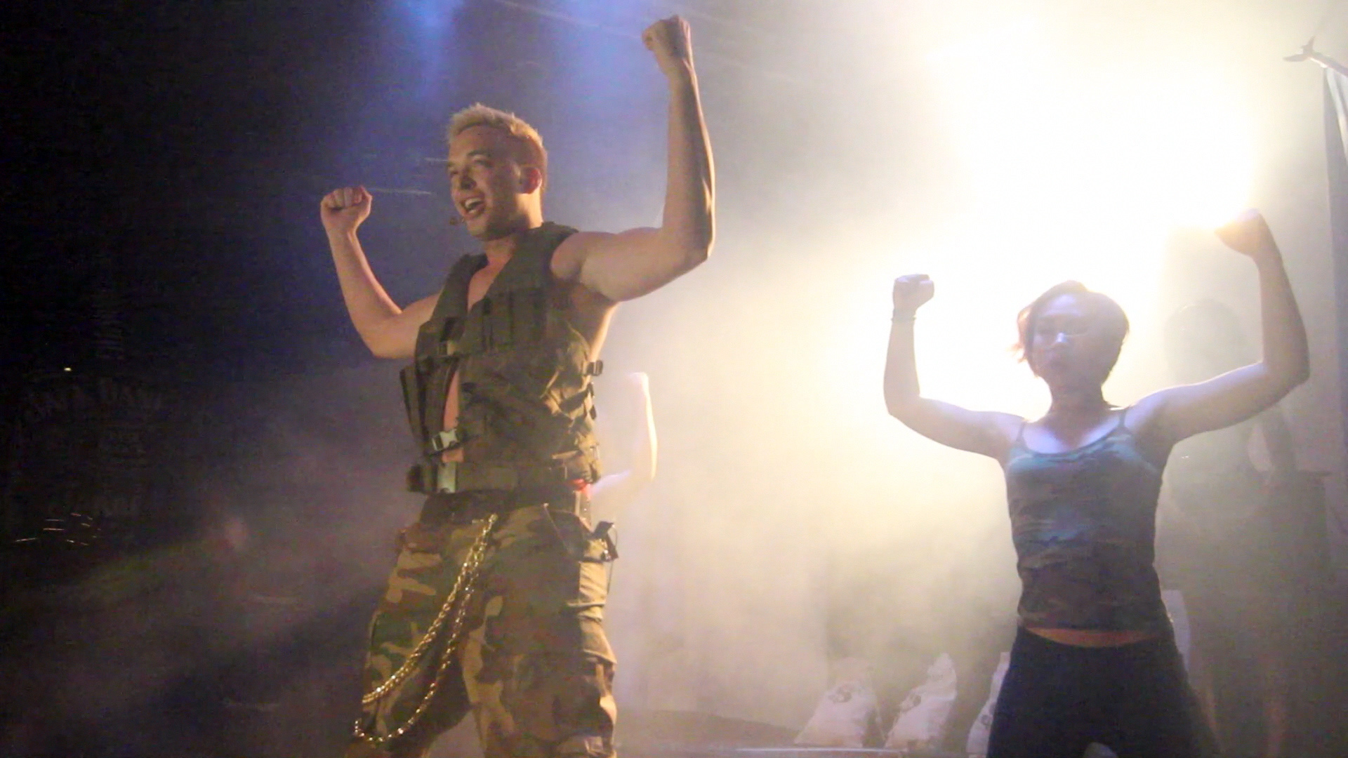 Kuba Ka